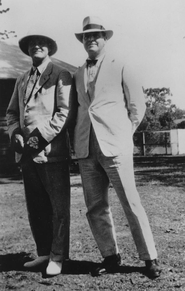 Daniel Edward Evans and J. Deakin at an EDCO (Evans Deakin and Company) picnic at Lone Pine, 1930 EDCO picnic in November 1930. Founders D.E. Evans and J. Deakin. (Description supplied with photograph). In 1910 Daniel Edward Evans, aged 25 and Arthur Deakin, aged 23, opened a small business in Edward Street as suppliers of engineering equipment. They acquired their first workshop in 1913. In July 1915 Evans joined the Australian Imperial Force as a lieutenant in the 2nd Divisional Engineers and served in Egypt and France. By the time his active service was terminated by wounds in February 1918 he was a major. In 1924 Evans became lieutenant-colonel commanding the 5th Division, Australian Engineers, and in 1930 colonel commanding the 11th Infantry Brigade. The engineering business, carried on during the war by Deakin, had prospered. Evans started a new workshop making small pieces of equipment in an outbuilding of his Coorparoo home in 1919. A larger establishment was bought in 1922. A new large workshop built at Rocklea for structural steel and railway-engine repairs in 1926 was ready to manufacture the steel work for the Story Bridge in 1933. Evans was in uniform again at the outbreak of World War II as chief engineer, Northern Command. In addition he established the Evans Deakin shipyard at Kangaroo Point.